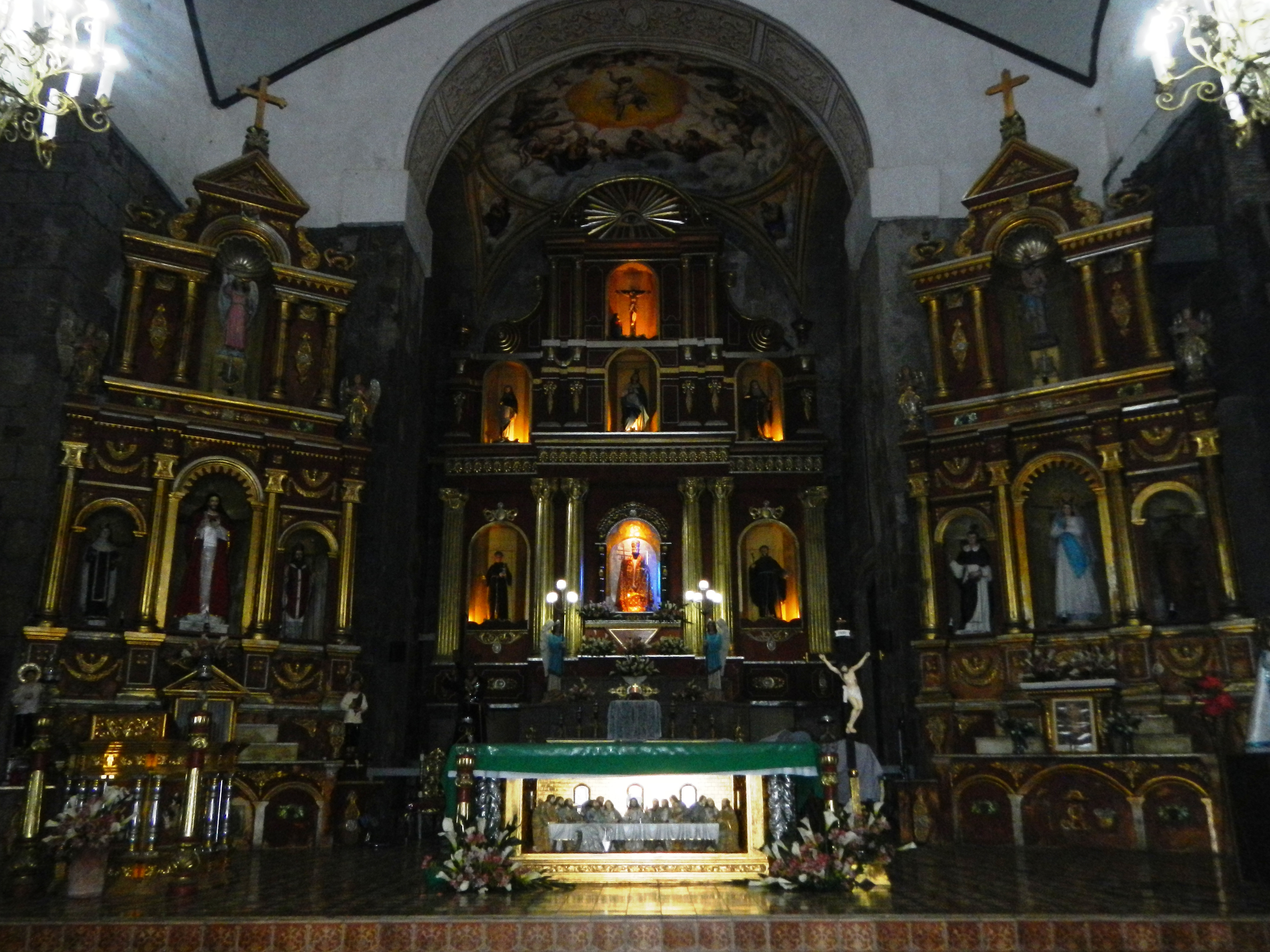 Upload Wizard -- (general description of landmarkds, town, church, bad weather, going to dark, sunset conditions) - of -1573 Saint Gregory the Great Parish Church of Majayjay, Majayjay, Laguna [1], - (belongs to the Roman Catholic Diocese of San Pablo[2] - [3] Saint Gregory the Great Parish Address: Poblacion, Majayjay 4005 Laguna, Philippines Feast day: March 12 Parish Priest: Father Cesar A. Gonzales, Jr. Vicariate of San Bartolome Apostol Vicar Forane: Father Larry R. Abayon.[4] - Town Proper, Centro, downtown, [5] Coordinates: 14°6'14"N 121°30'46"E F. Blumentritt St, Majayjay, Laguna, Calabarzon[6] - Majayjay, Laguna [7] (a fourth class municipality in the province of Laguna, Philippines, located at the foot of Mount Banahaw,[8] stands 1,000 feet above sea level; latest census, it has a population of 24,791 politically subdivided into 40 barangays).